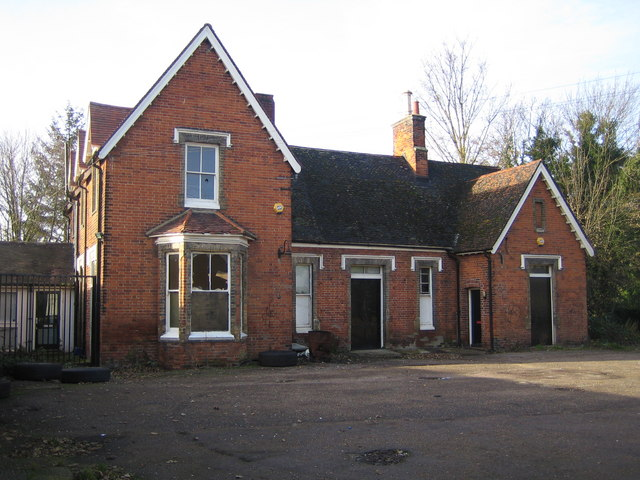 Buntingford: Former railway station "Next train's gone!" to quote Jeremiah Harbottle in the Will Hay film "Oh Mr Porter". Well this may not quite be Buggleskelly but the last passenger train left Buntingford station in 1964. Despite this the building appears to be generally in remarkably good condition. It was built at the end of the 13¾ mile long branch line from St Margarets near Ware, and was opened in 1863. Closure to passengers came in 1964 whilst a goods service lingered for another year. So the building served the community for 102 years but has been disused as a passenger railway station for the last 43 years. There is however a notice fixed to the building stating that a planning application has been made to convert the station house to three dwellings, with other houses to be built too. The station is off the road to Aspenden and is just visible to the right in Robert's 216438.